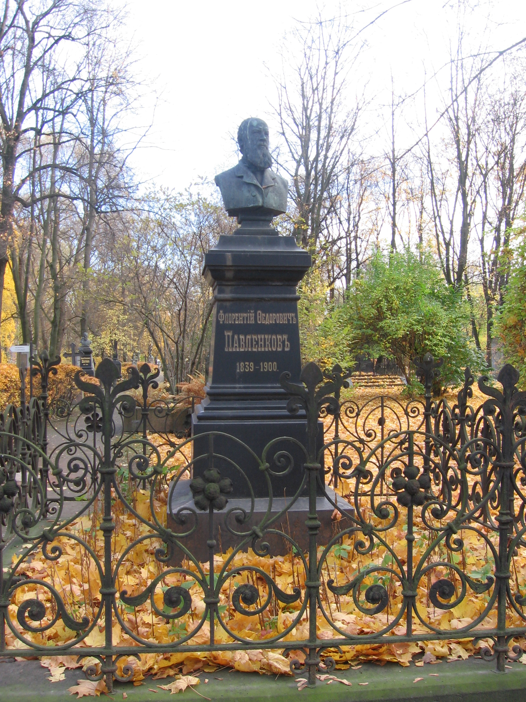 Grave of Florentius Pavlenkov